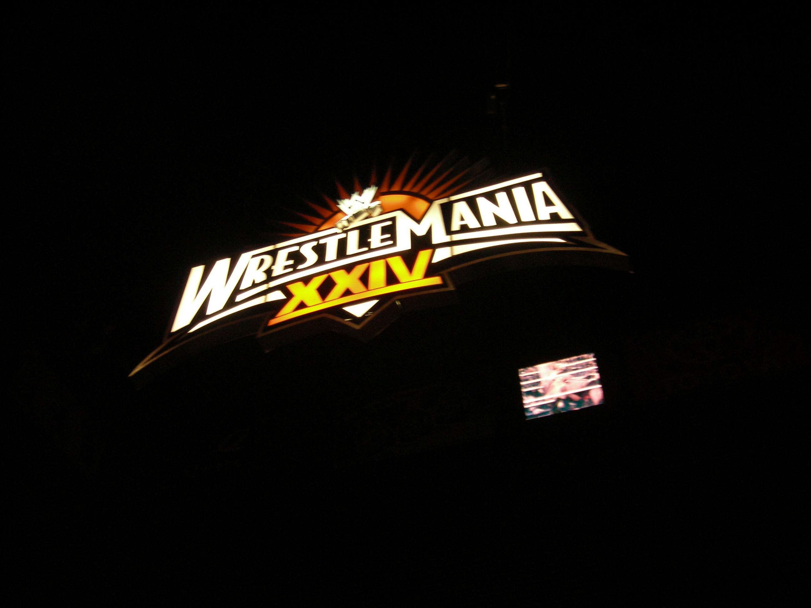 Logo of WWE WrestleMania XXIV